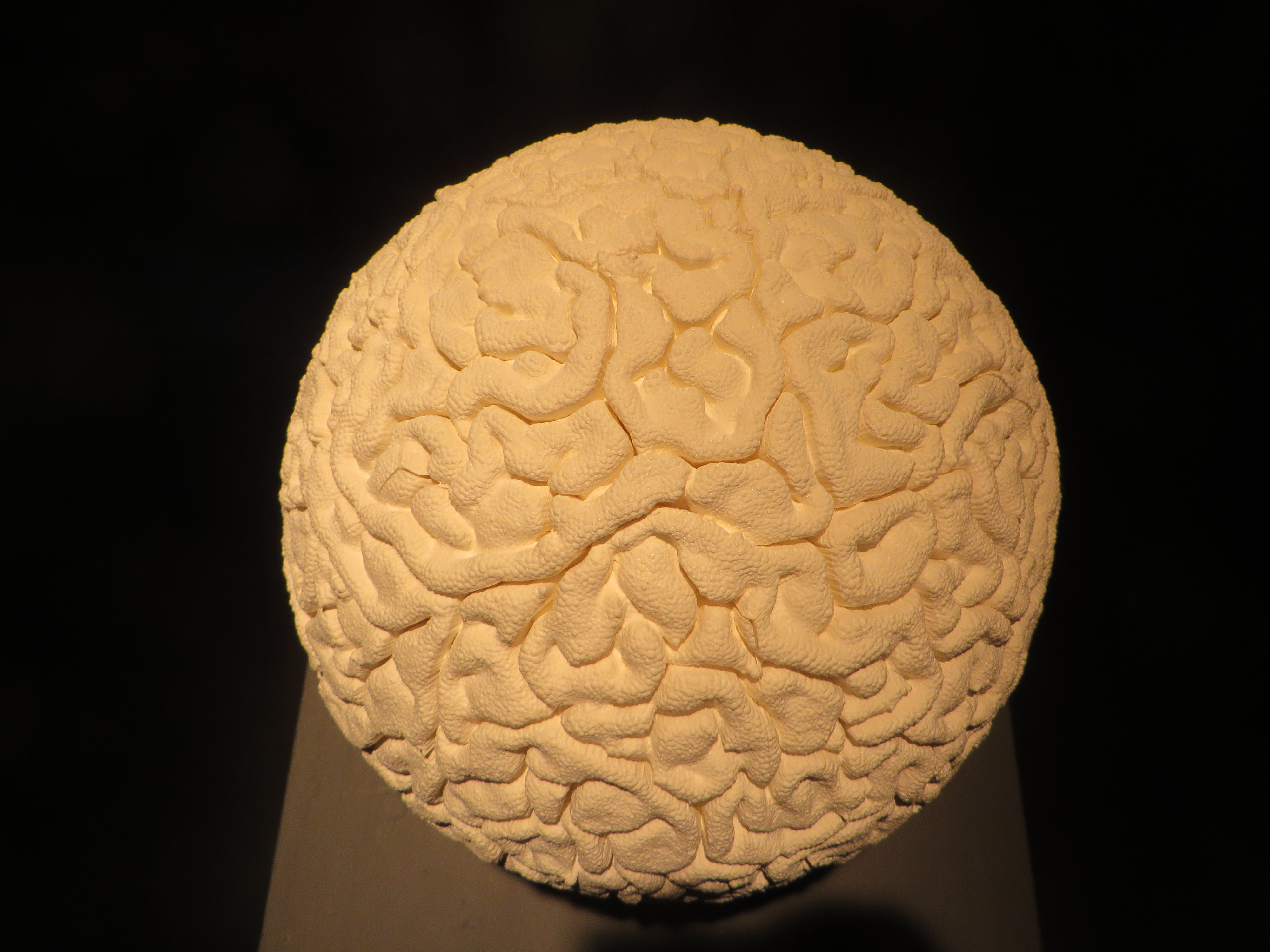 Morphogenic sculpture by Andy Lomas at an exhibition at Watermans Arts Centre, west London, England, 2016.